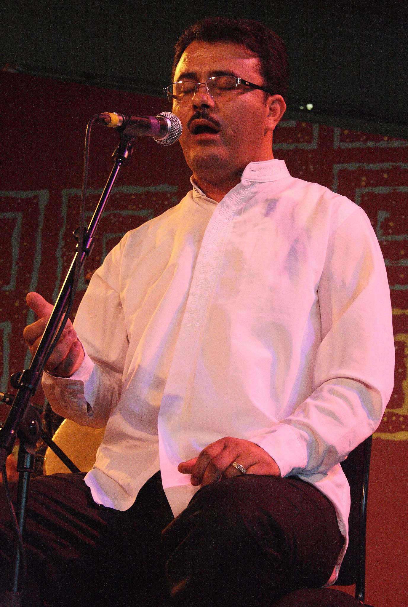 8th May 2012 at Queen Elizabeth Hall (Front Room), London SE1. Friday Tonic (free event).